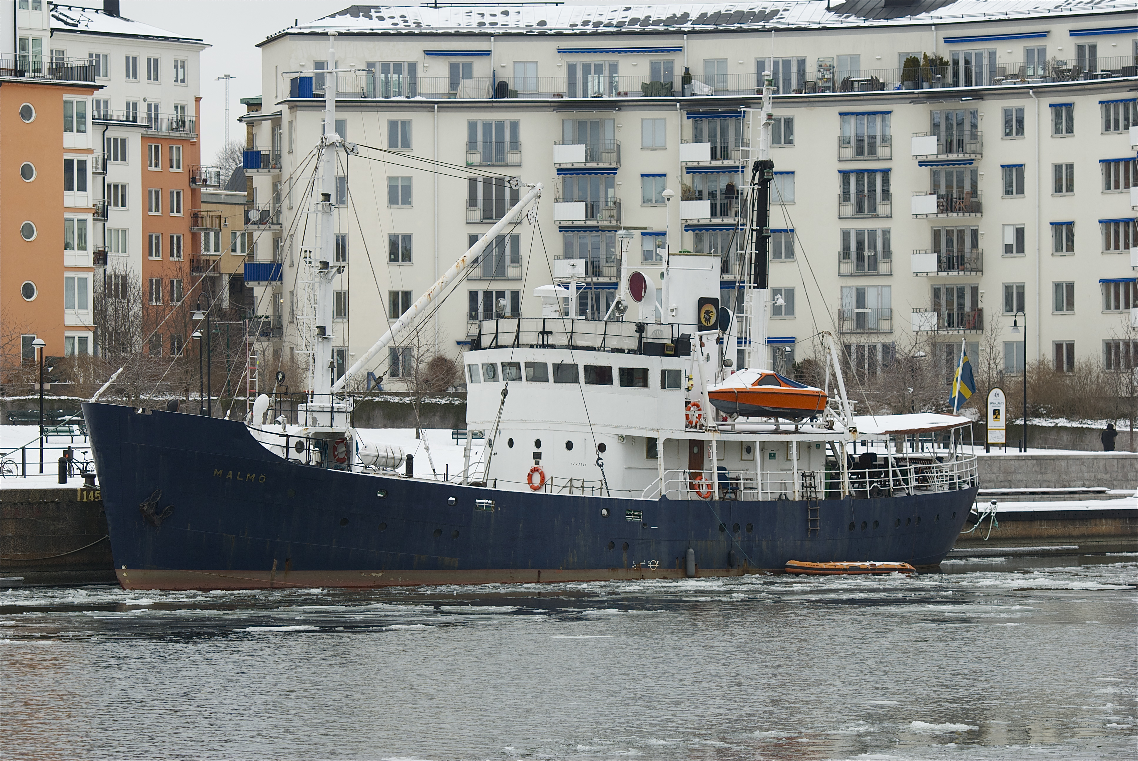 MS Malmö February